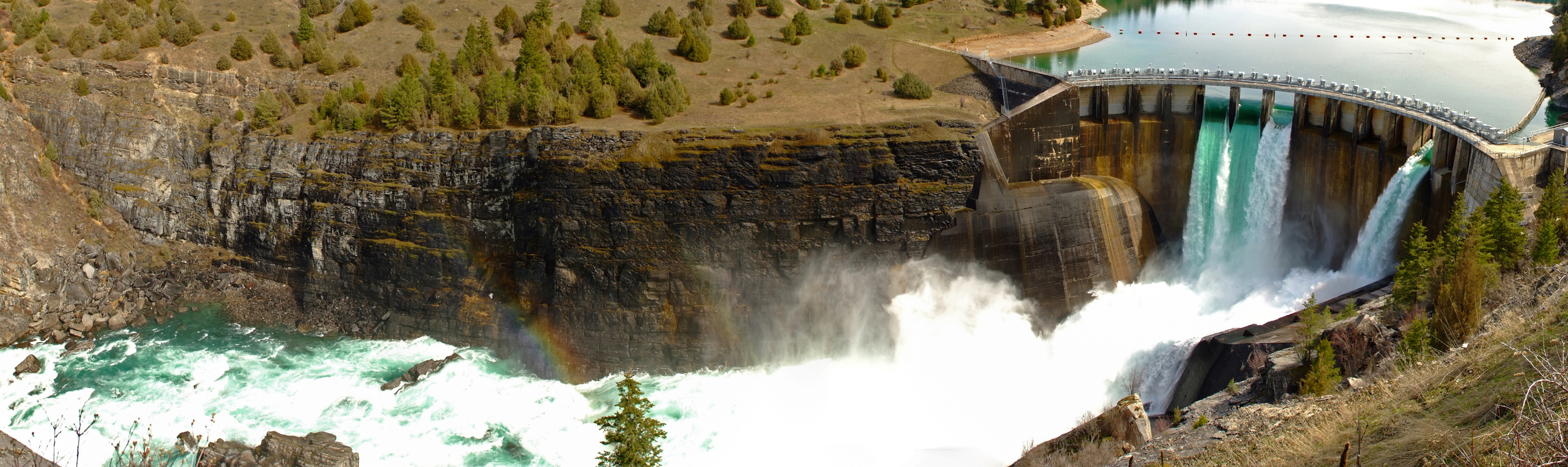 Hydroelectric Séliš Ksanka Ql’ispé Dam at Polson, operated by the Confederated Salish and Kootenai Tribes of the Flathead Nation in Montana